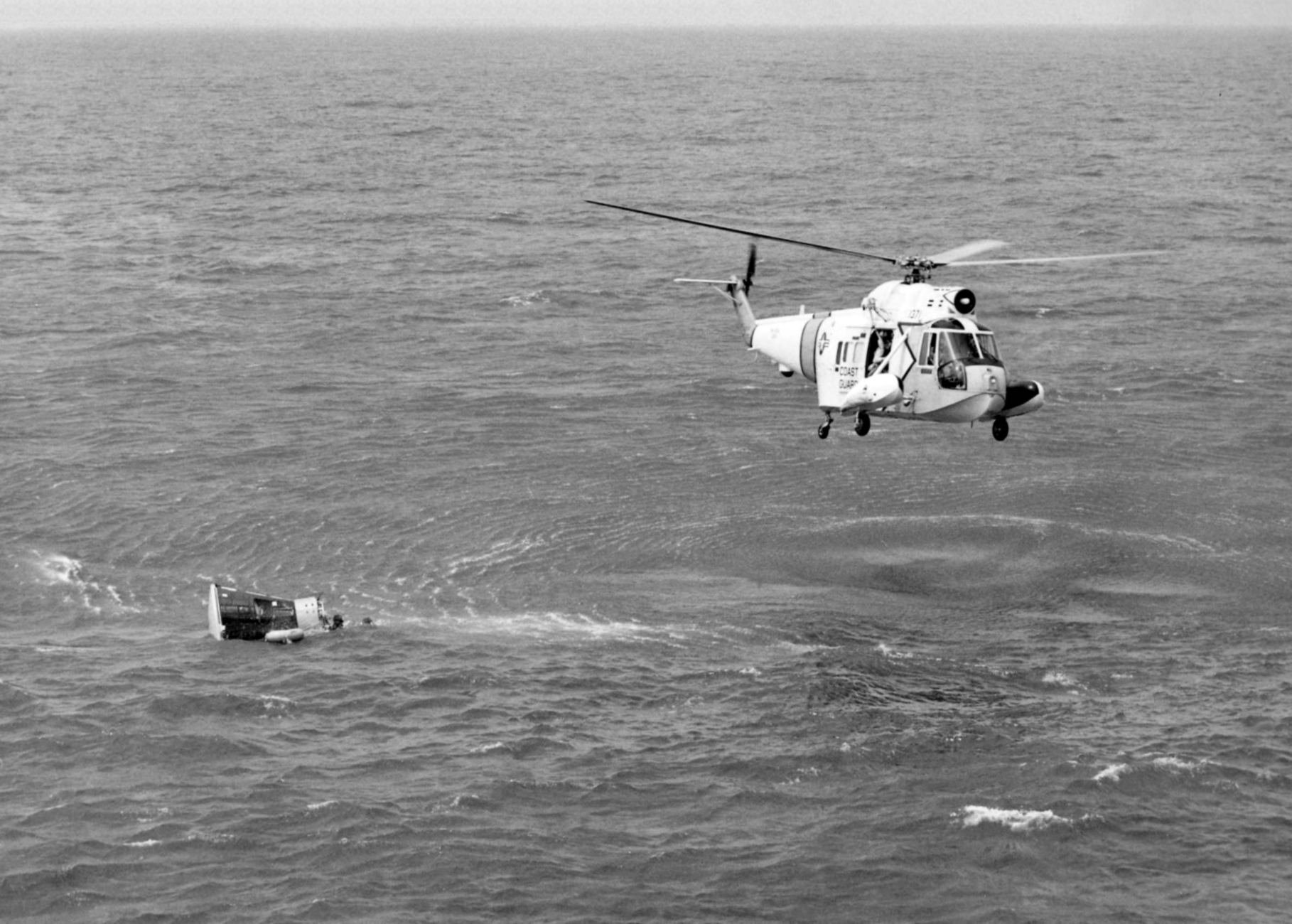 A U.S. Coast Guard Sikorsky HH-52A Seaguard helicopter over the Gemini 3 space capsule flown by astronauts Gus Grissom and John Young after it splashed down in the Atlantic Ocean, 23 March 1965. The aircraft carrier USS Intrepid (CVS-11) recovered the craft and crew.